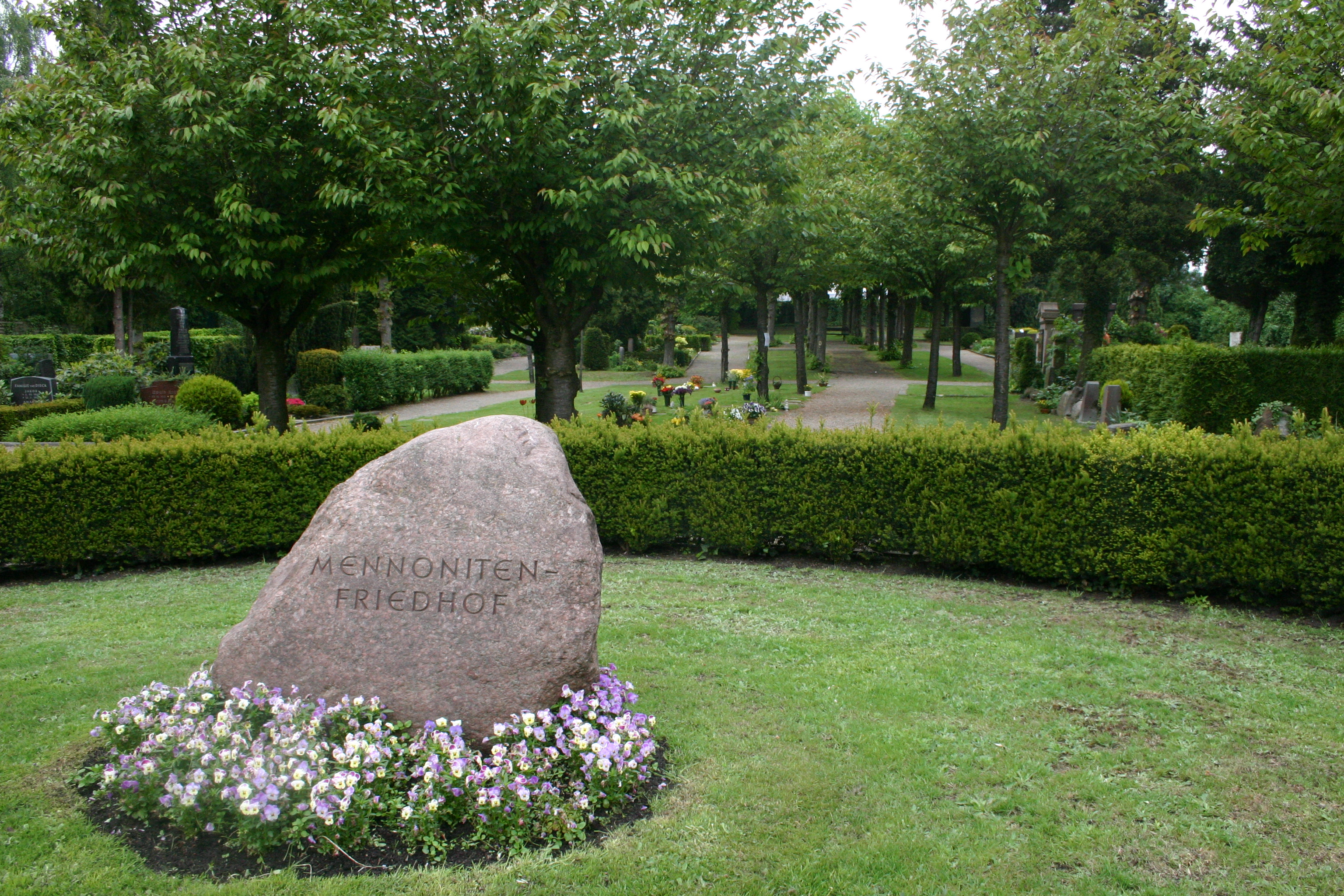 Mennonite cemetary in Hamburg-Altona